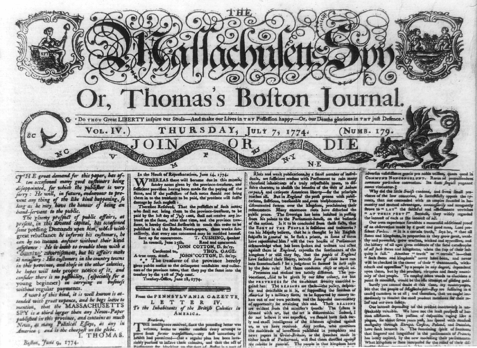 Masthead of the The Massachusetts spy, or, Thomas's Boston journal, a newspaper founded by Isaiah Thomas in 1771 and published in Boston, Massachusetts. This is from the July 7, 1774 issue.